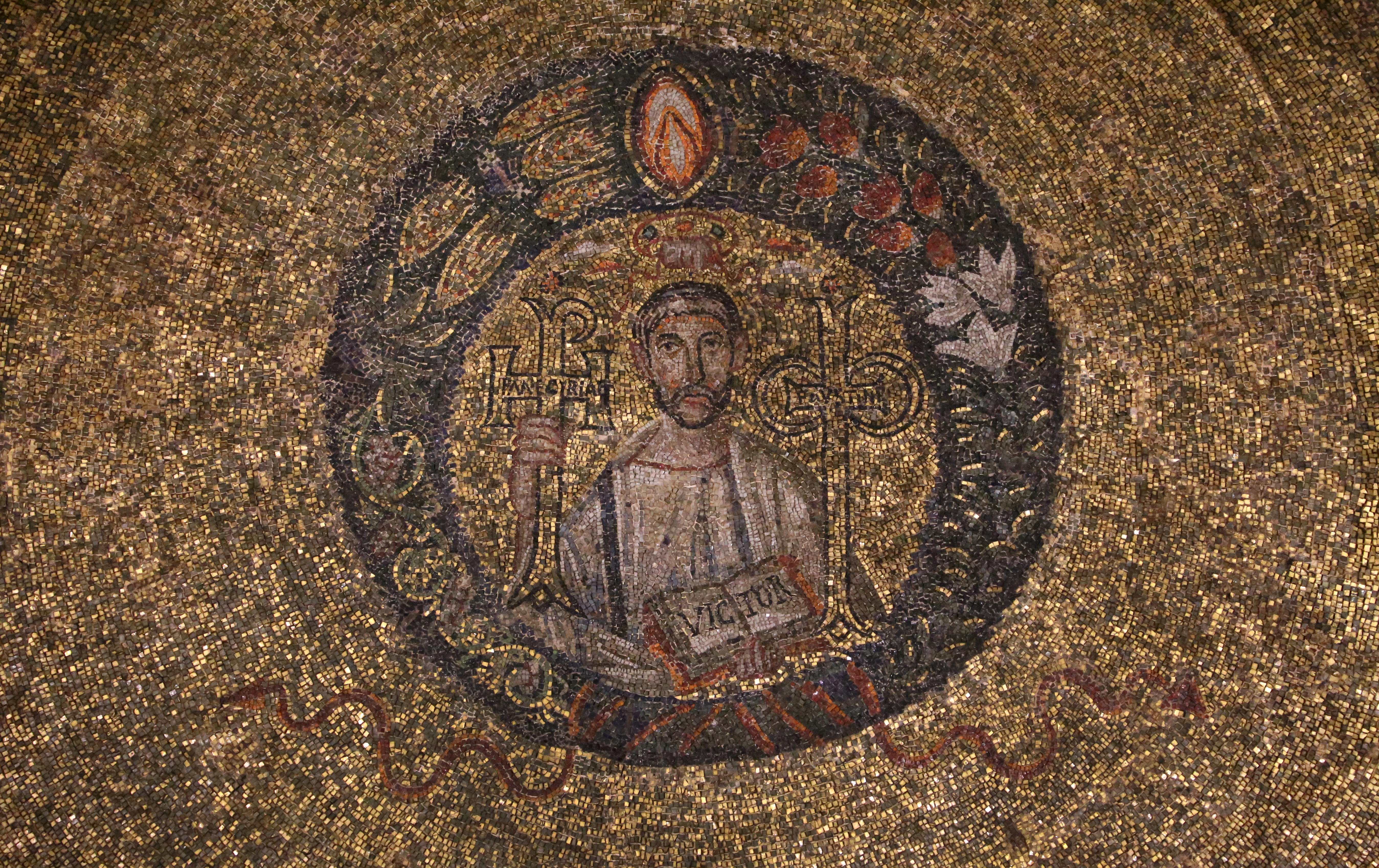 San Vittore in ciel d'oro (Milan)